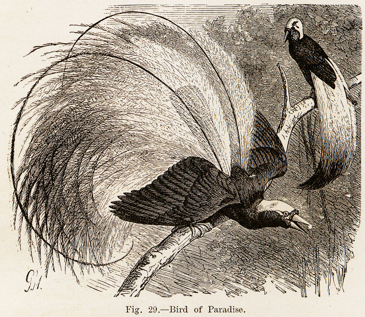 'Bird of Paradise' from Animal Coloration by Frank Evers Beddard, 1892